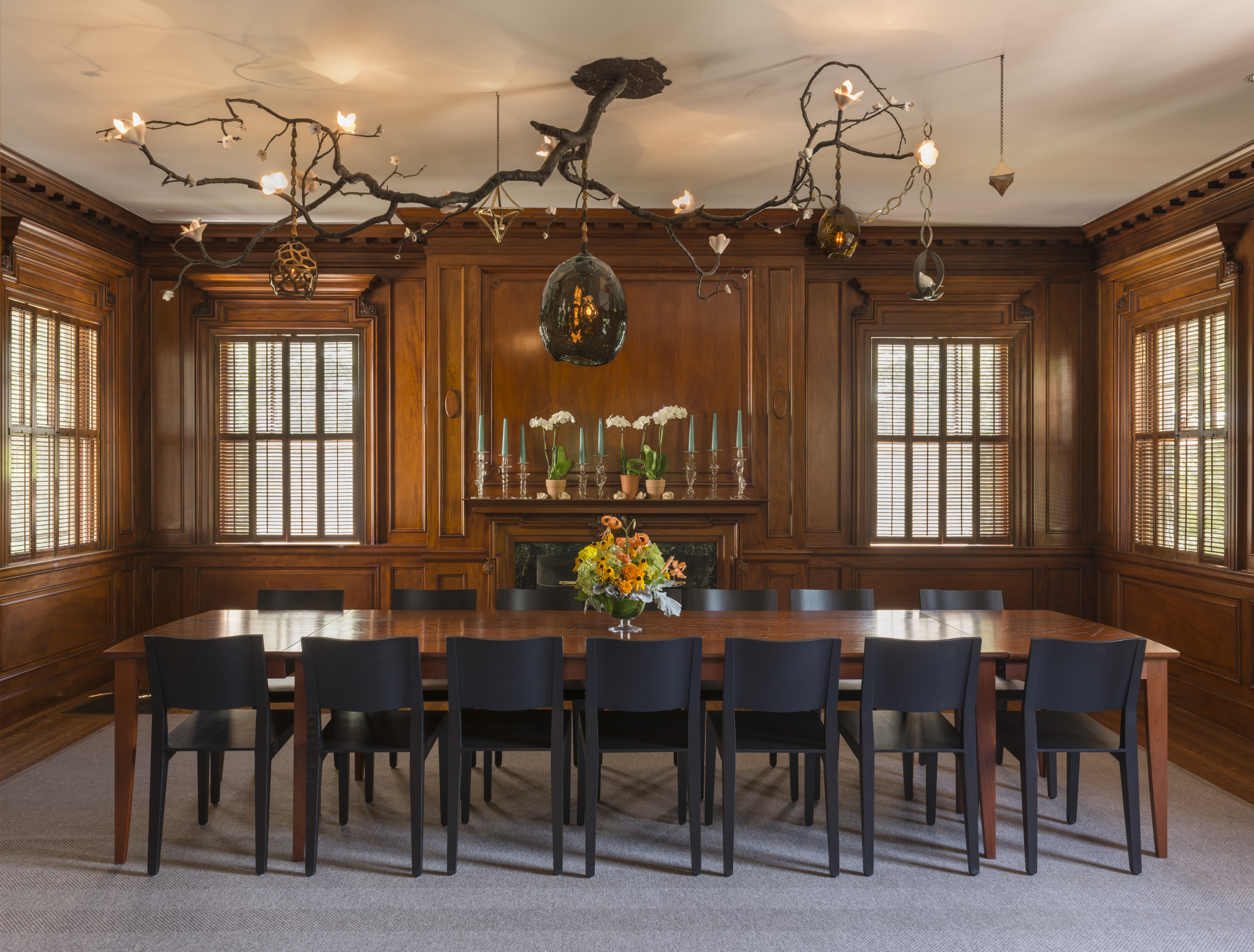 David Wiseman RISD Chandelier